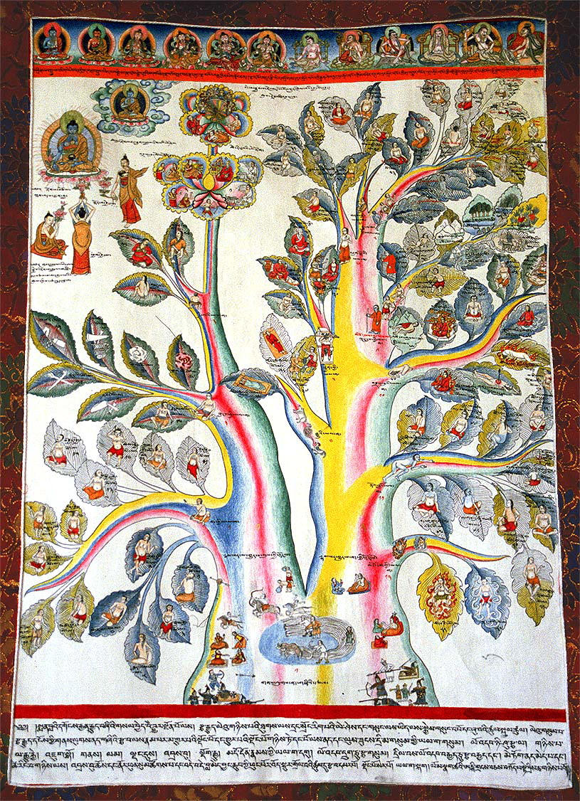 This thangka introduces the four tantras, which all the medical paintings are based upon. The first is the Root Tantra, which gives an overview of treatments, principles and the main topics in Tibetan medicine. Since this Thangka, along with the following three paintings are illustrations of the Root Tantra, they provide general overviews of Tibetan medicine as a whole. These paintings create a framework to organise all the related topics contained in the practice of Tibetan medicine. The second is the Exegetical Tantra, which elaborates on the principles covered in the Root Tantra through eleven topics ranging from conduct to diagnosis. The third tantra is the Instructional Tantra, which is concerned with explaining the practical application of various treatments. The fourth tantra is the Subsequent Tantra, which goes into much greater detail than the Instruction Tantra on the practical techniques, including the making of medicines, the reading of pulse and the practice of bloodletting. In total, there are 156 chapters contained in the four tantras. The thangka depicts the first of the three roots of medicine outlined in the Root Tantra: the basis of health and disease. The painting introduces the central concept in Tibetan Medicine of the three humors: rlung (pronounced "loong"), mkhris-pa ("treeba") and bad-kan ("baygan.") All disorders of the body are produced by imbalance of these three humors. Once again, the medicine Buddha is depicted in the left-hand corner of this painting along with three monks who are greeting the Buddha and learning the teachings of the Root Tantra. The two flowers to the right represent longevity (top) and health (bottom.) Sources and Further Reading: Dorje & Meyer: pg 19-20 Jingfeng: pg 59-64